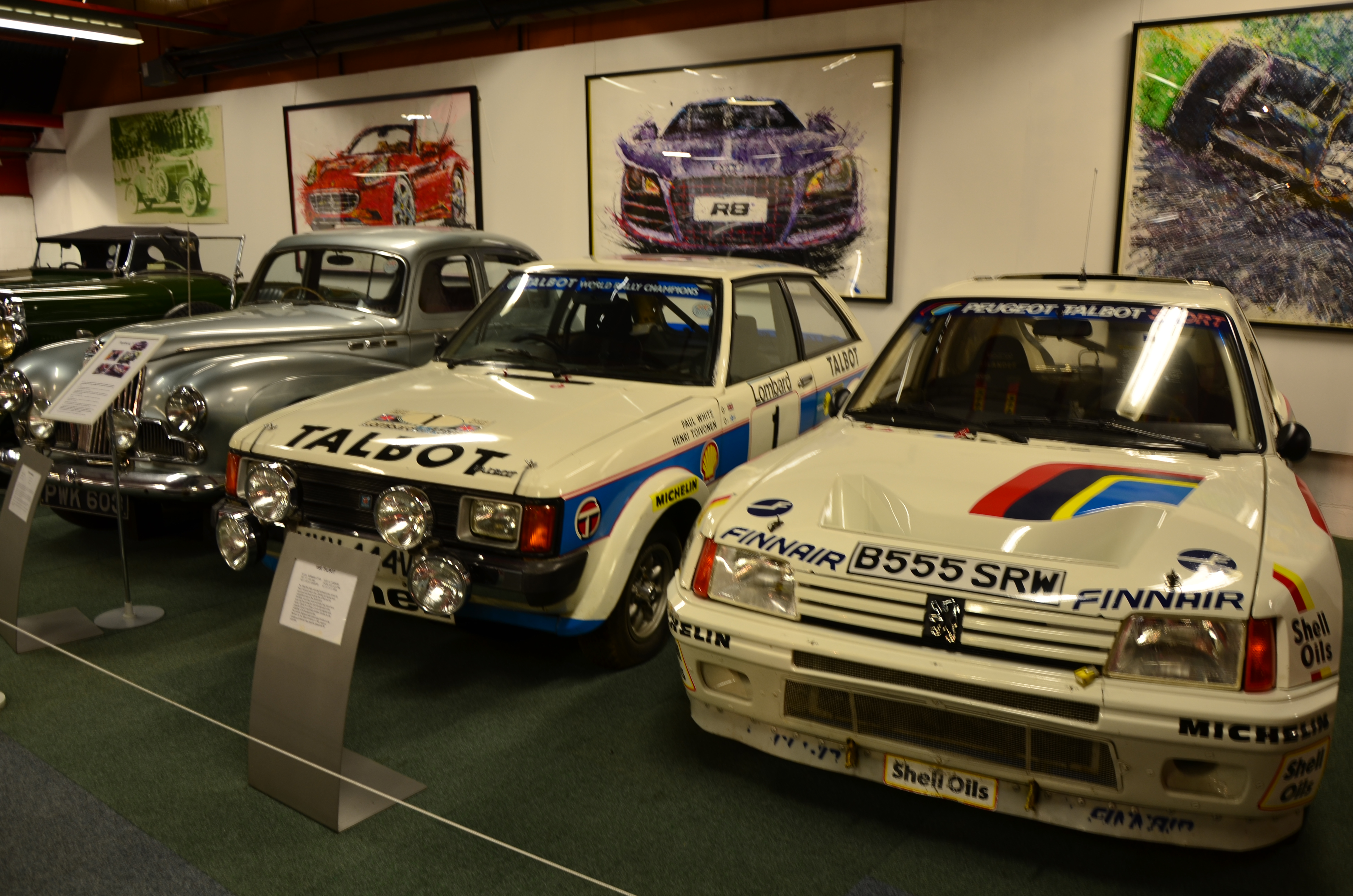 Talbot and Peugeot 205 rally cars